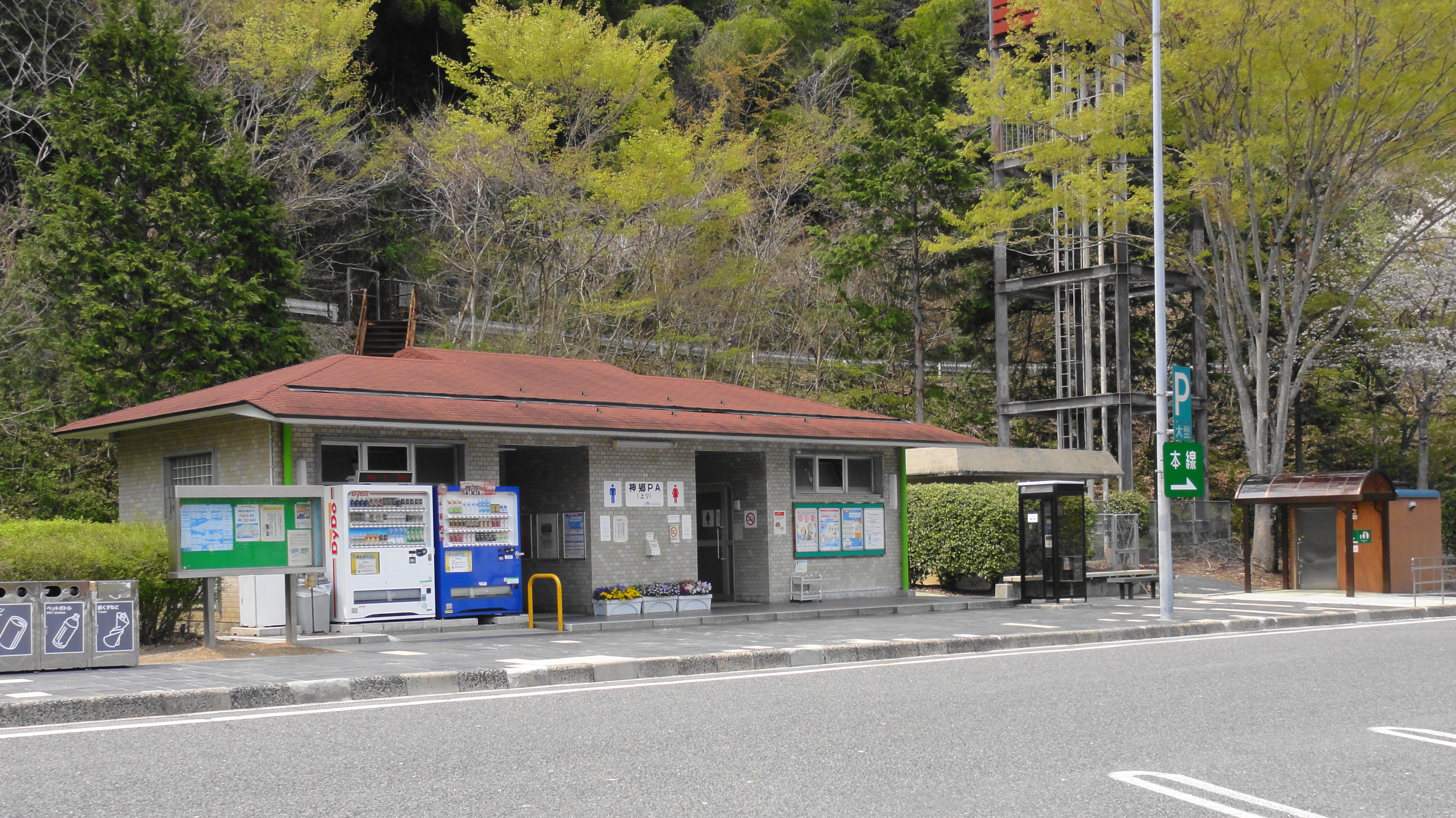 Shingo Parking Area,Okayama prefecture,Japan